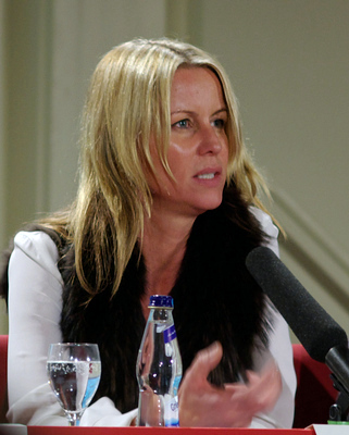 German film director Aelrun Goette